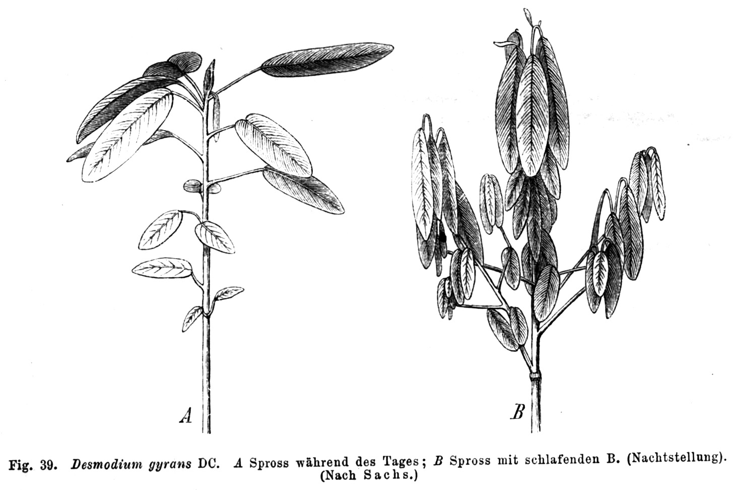 Illustration from book